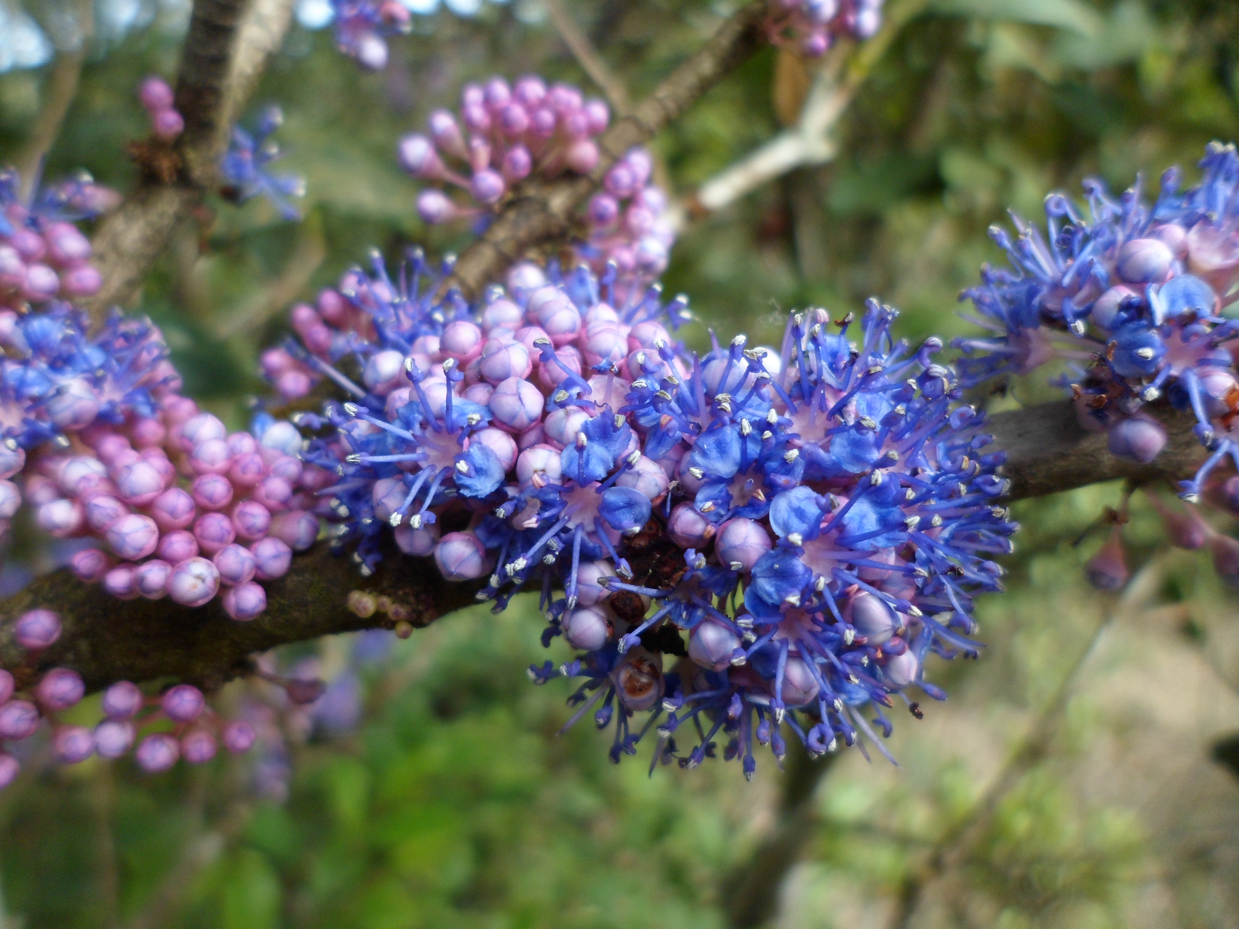 this picture shows the inflorecense of Memecylon species. This species collected from Vellingiri hills, Coimbatore District, Tamil Nadu. It is comes under the family Melastomataceae.